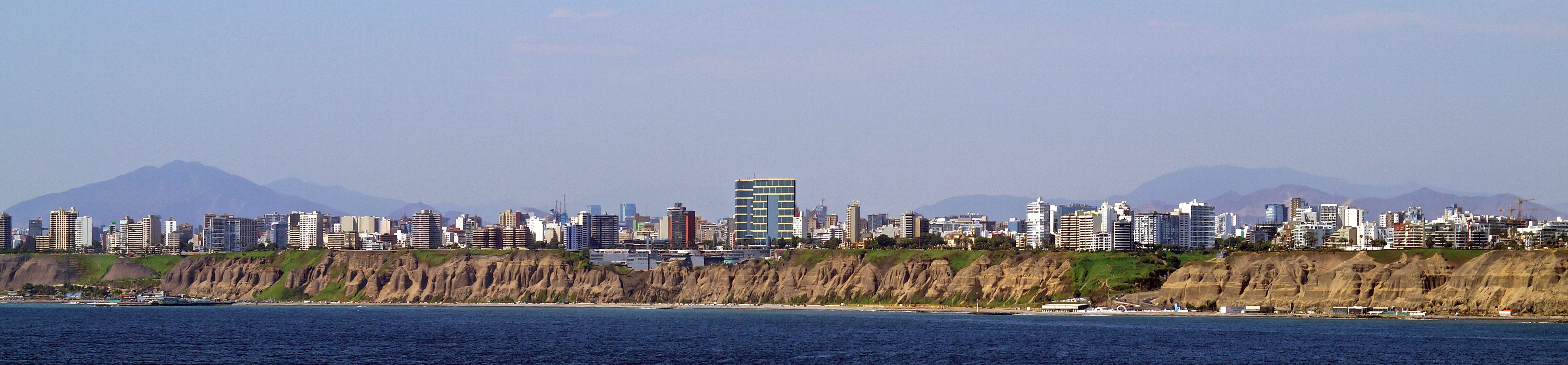 Miraflores (Costa Verde), view from the Chorrillos District, Lima, Peru.